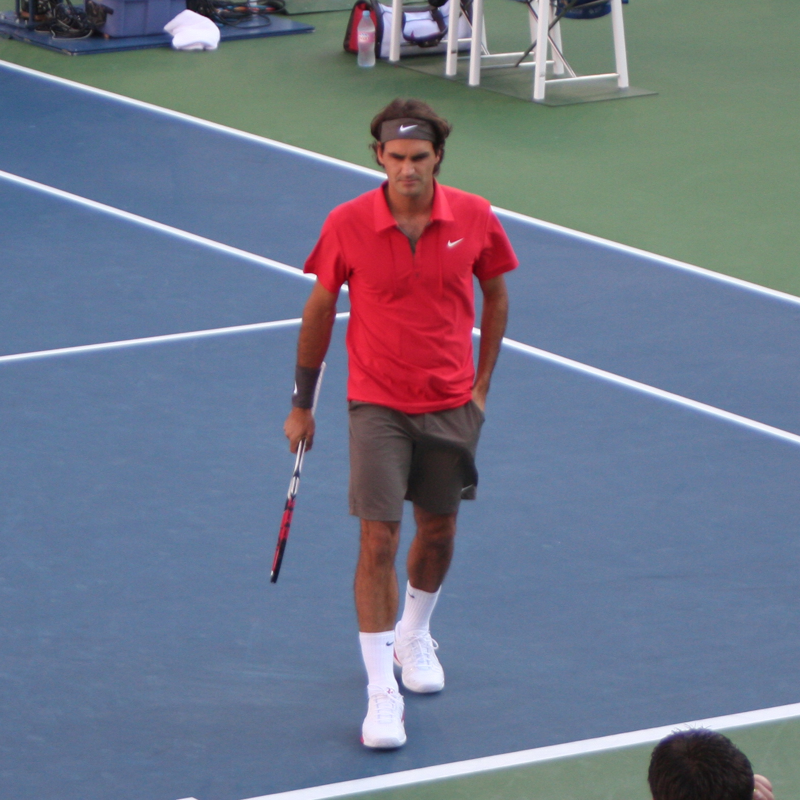 Roger Federer at the US Open 2008